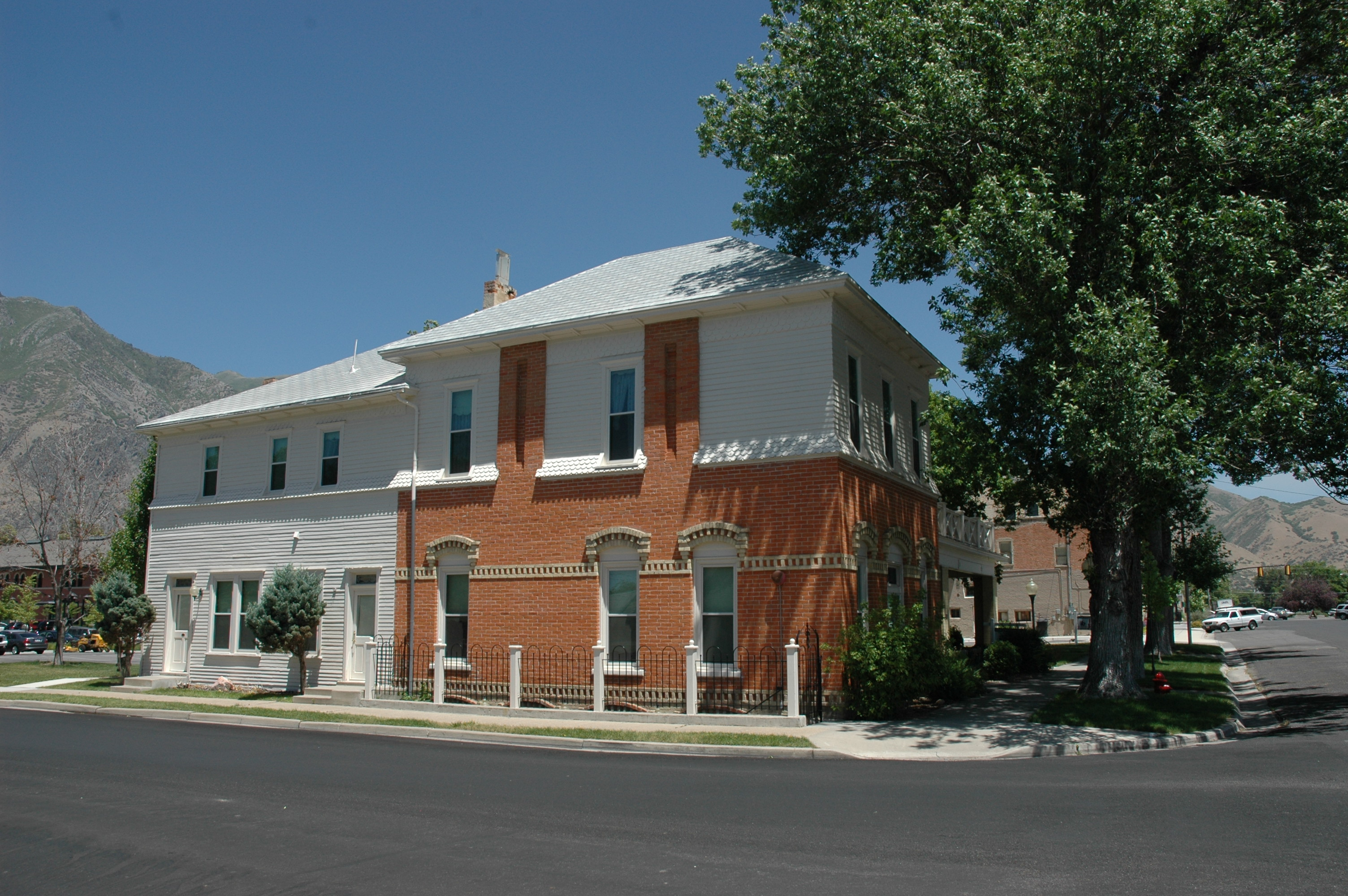 The Johnson-Kearns Hotel, a historic building in Springville, Utah, United States.